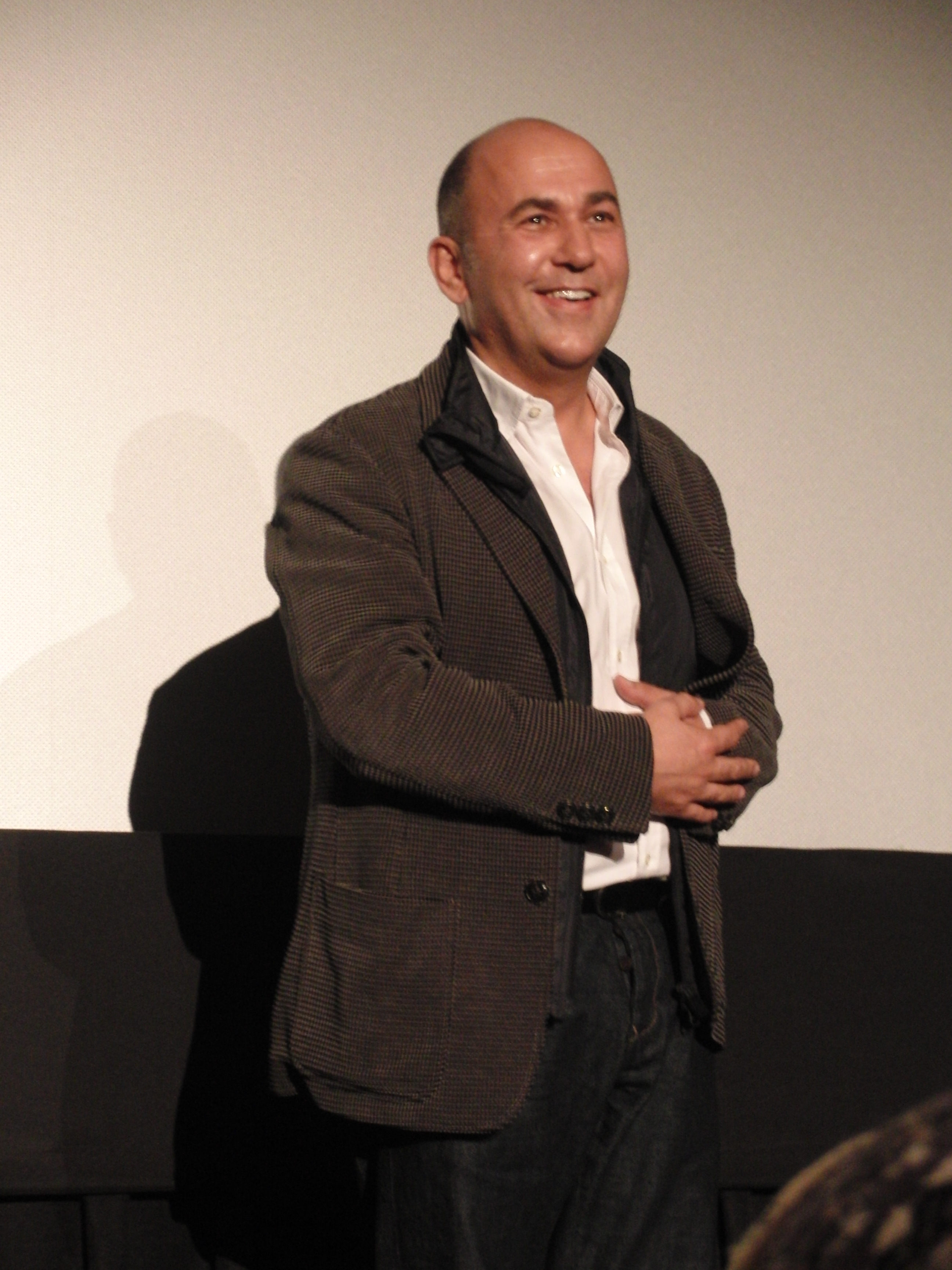 Ferzan Ozpetek at Tribeca Film Festival 2010